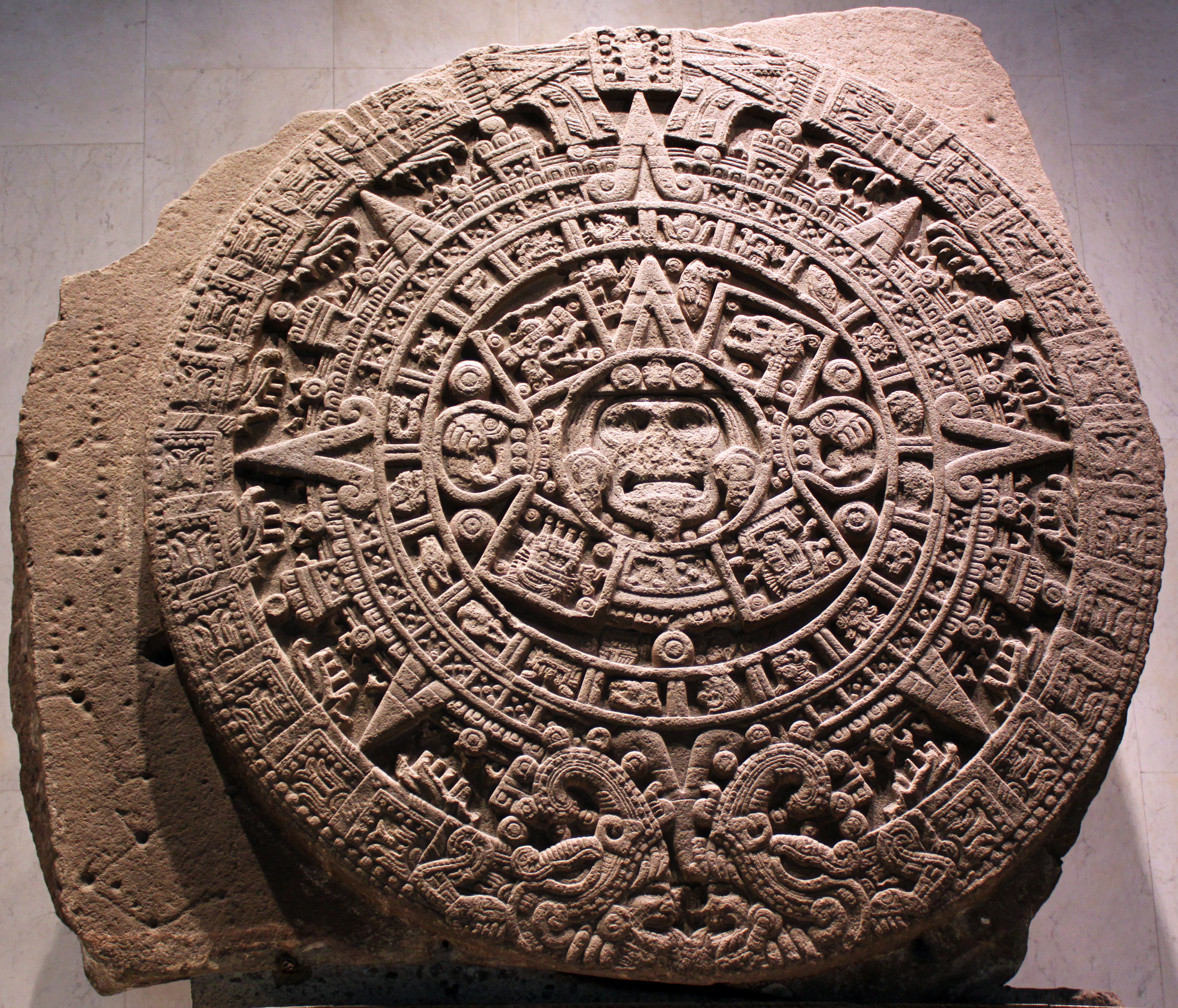 Monolith of the Stone of the Sun, also named Aztec calendar stone (National Museum of Anthropology and History, Mexico City).